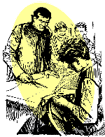 Don Bosco Teaching